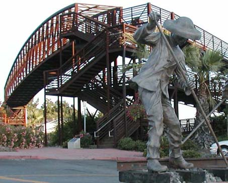 The Jennifer Street Bridge is a footbridge over the railroad tracks in San Luis Obispo, California. This is a pedestrian and bicyclists bridge, and so offers stairs for bipeds and ramps for bicycles. The statue is a monument to the Chinese workers who built the transcontinental railroads in California in the 1800s.